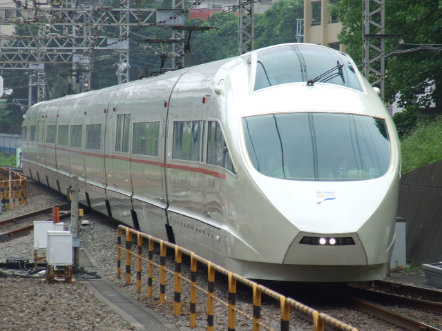 Odakyu 50000 series "VSE" Romancecar EMU with Blue Ribbon Award commemorative sticker on the front